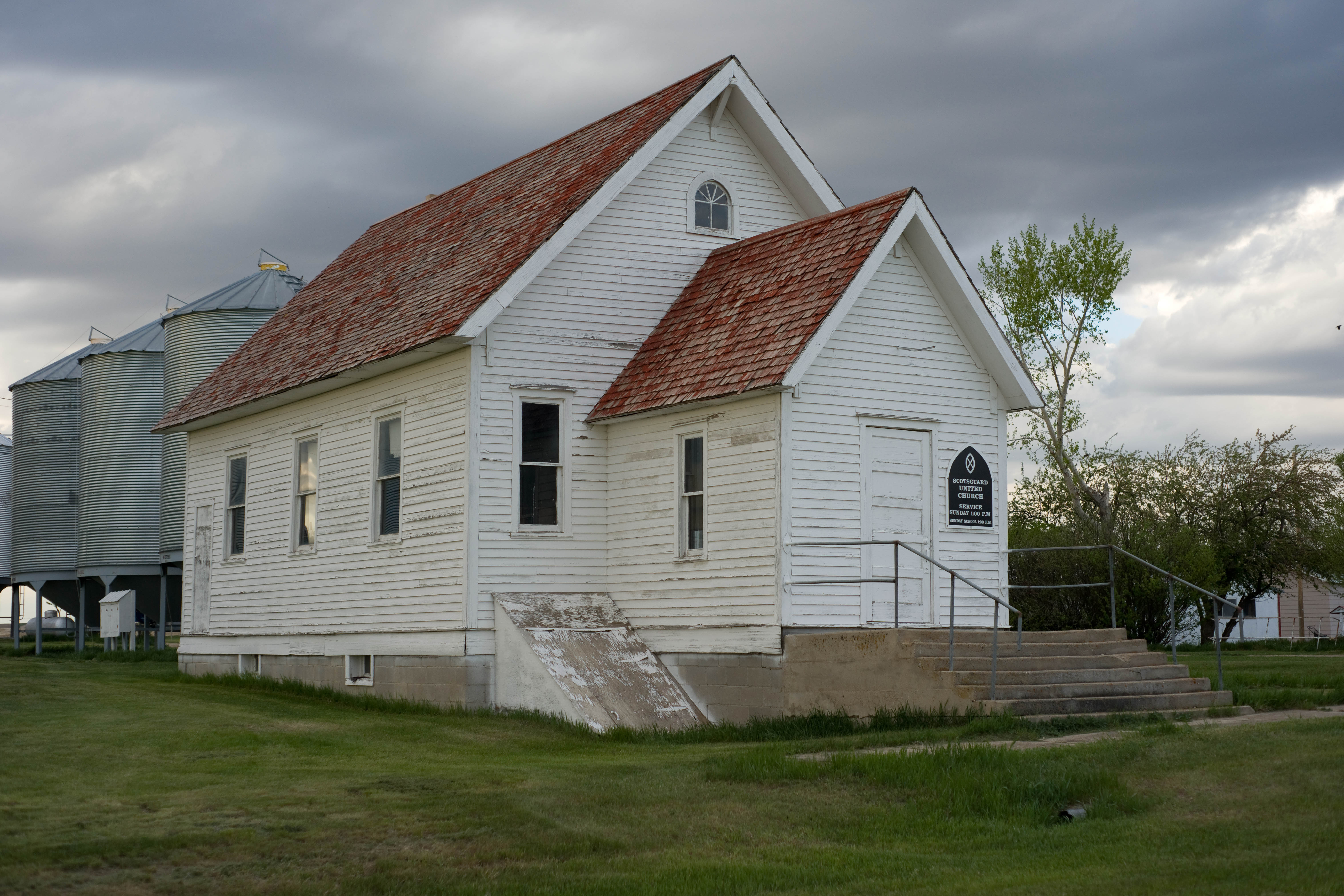 Scotsguard United Church in the ghost town of Scotsguard, Saskatchewan, Canada. From